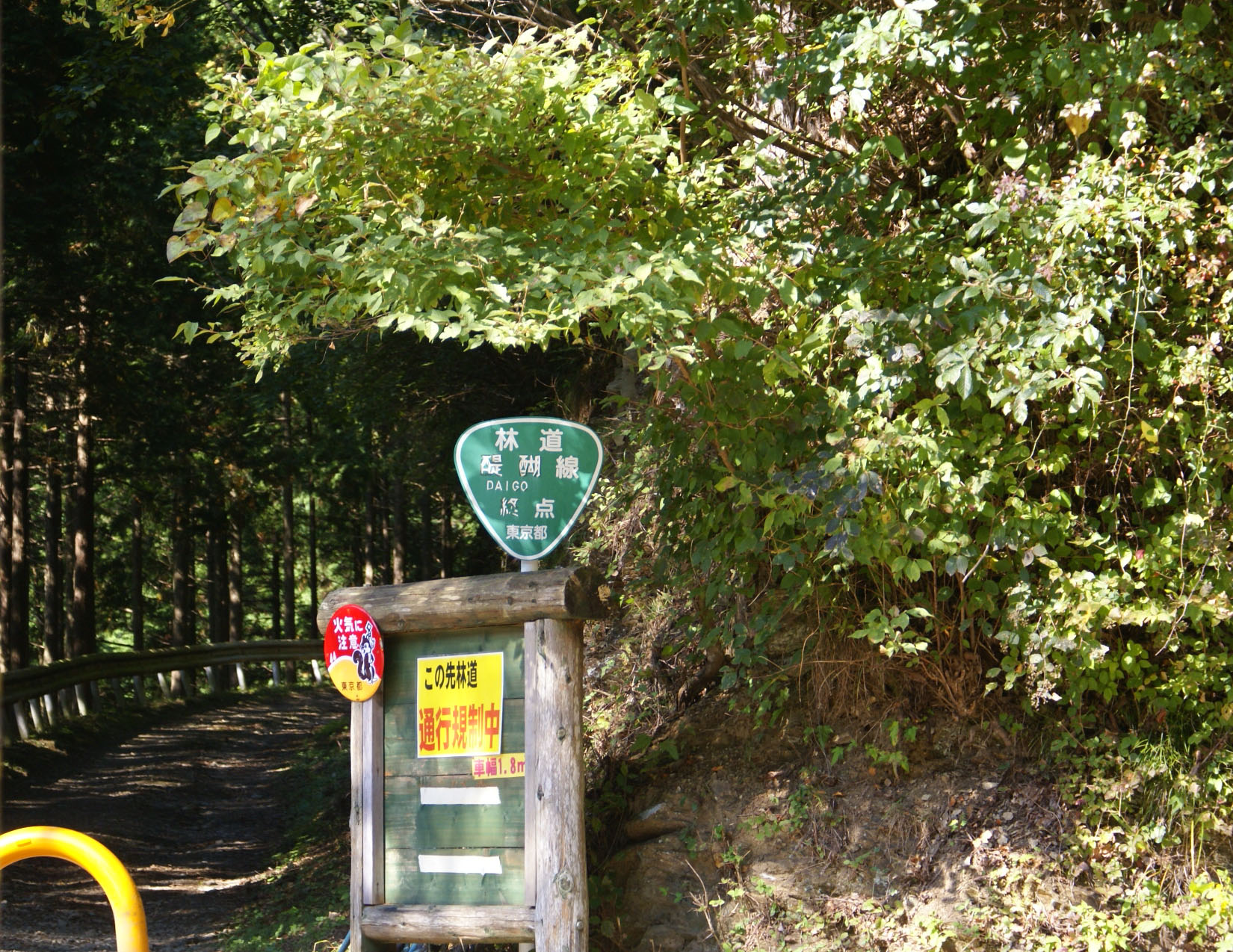 Daigorindo